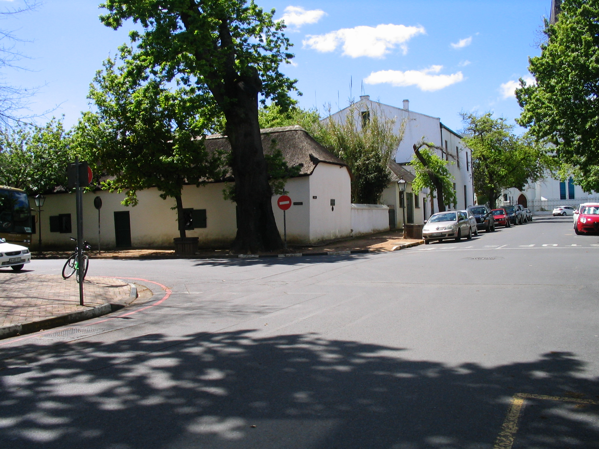 Schreuder House, 10 Ryneveld Street, Stellenbosch This media shows a South African Protected Site with SAHRA file reference 9/2/084/0027.